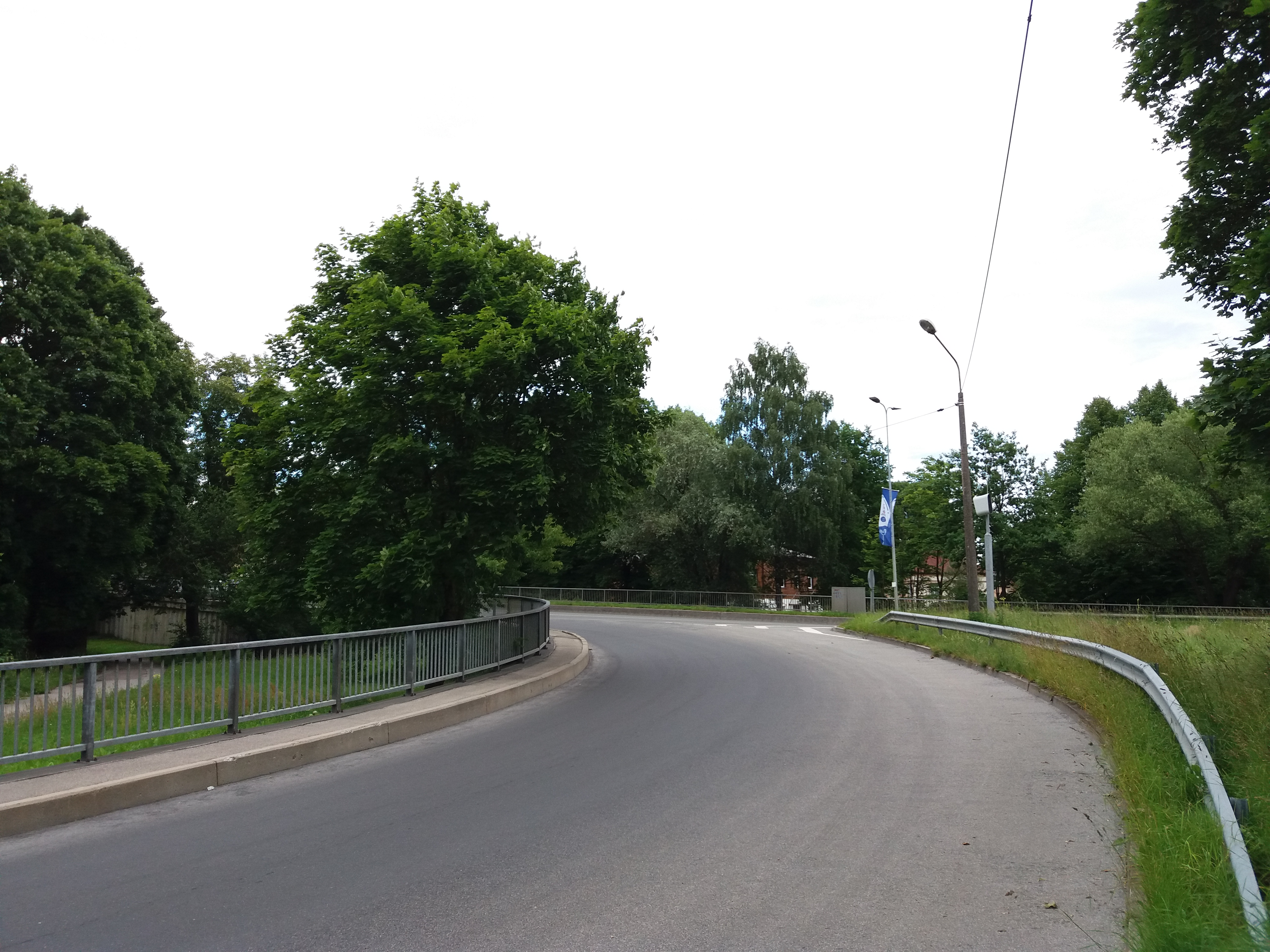 Baseina street in Riga, Latvia